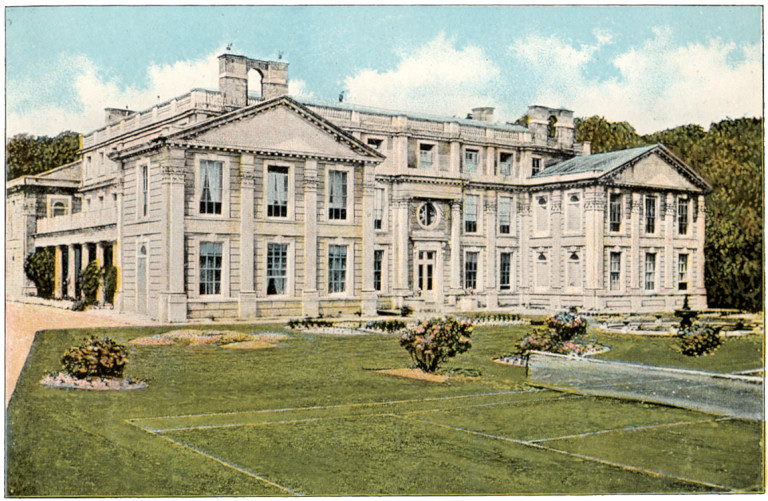 APPULDURCOMBE ABBEY.—The ancient seat of the Worsley family, the present building was erected in the eighteenth century by Sir Robert Worsley. Here the Benedictine monks had a Priory in the time of Henry III. It was dissolved by Henry V, Sir Richard Worsley died in 1805, and the house became the property of the Earl of Yarborough, who had married the niece and heiress of the family. After being used as a school for many years, it is now occupied by Benedictine monks, In a beautiful park of four hundred acres, with a lofty down behind it, the house appears to be a well secluded and charming retreat. There is a public footpath through the meadow in front of the house.